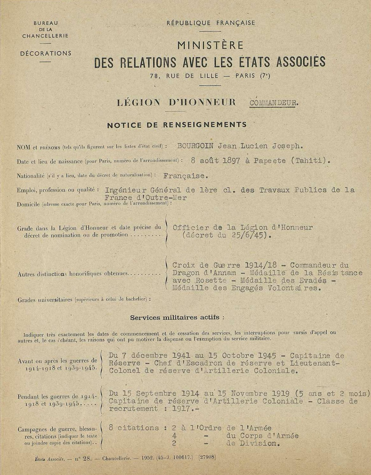 République française. Ministère des relations avec les états associés. Légion d’Honneur Commandeur. Notice de renseignements de Jean Lucien Joseph Bourgoin.